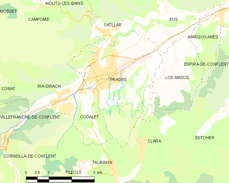 Map of French municipality